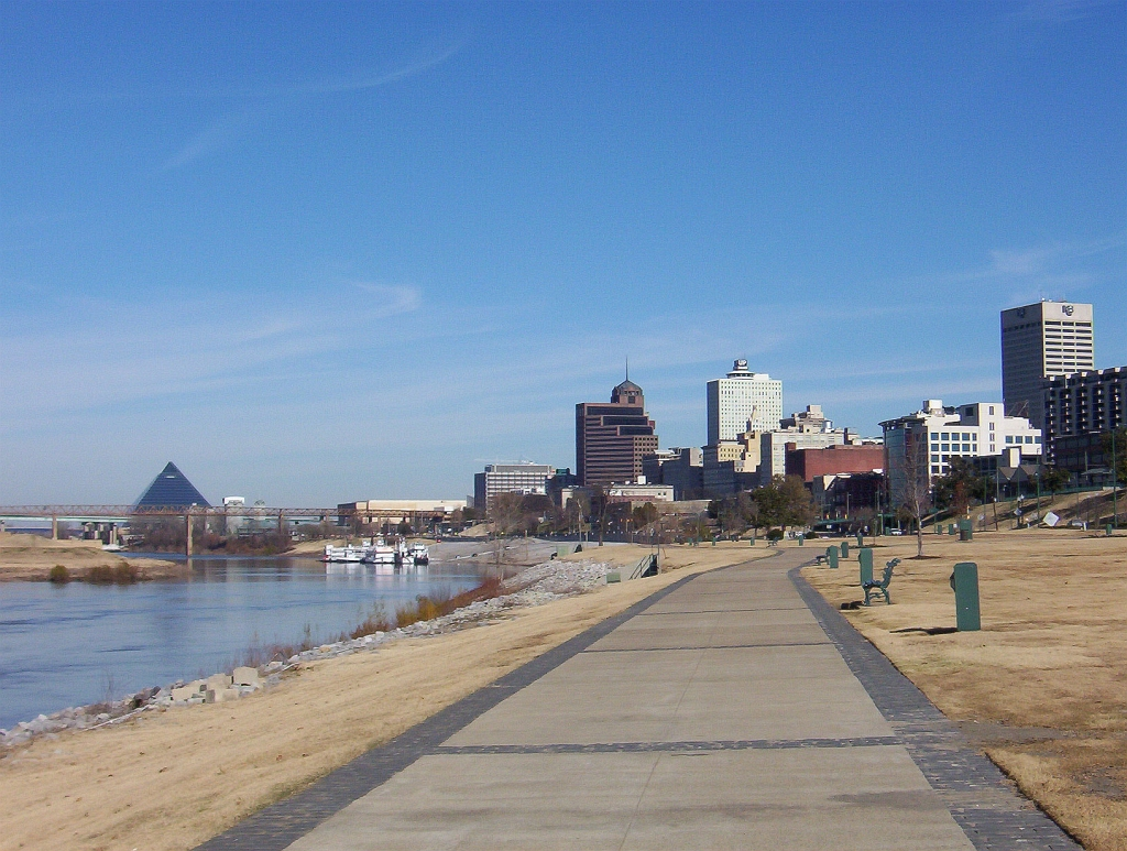 Image of the Memphis, TN skyline, the Pyramid Arena in the background.